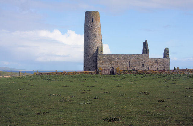 St Magnus Kirk, Egilsay The kirk was built towards the end of the 12th century and consists of a nave and small chancel. The tall round tower on the western end is a notable landmark, being visible from Rousay and the Orkney mainland. The church lost its roof sometime in the 19th century. It is dedicated to St Magnus, who was slaughtered on Egilsay in 1114.